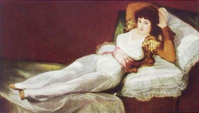 The Clothed Maja (La Maja Vestida)